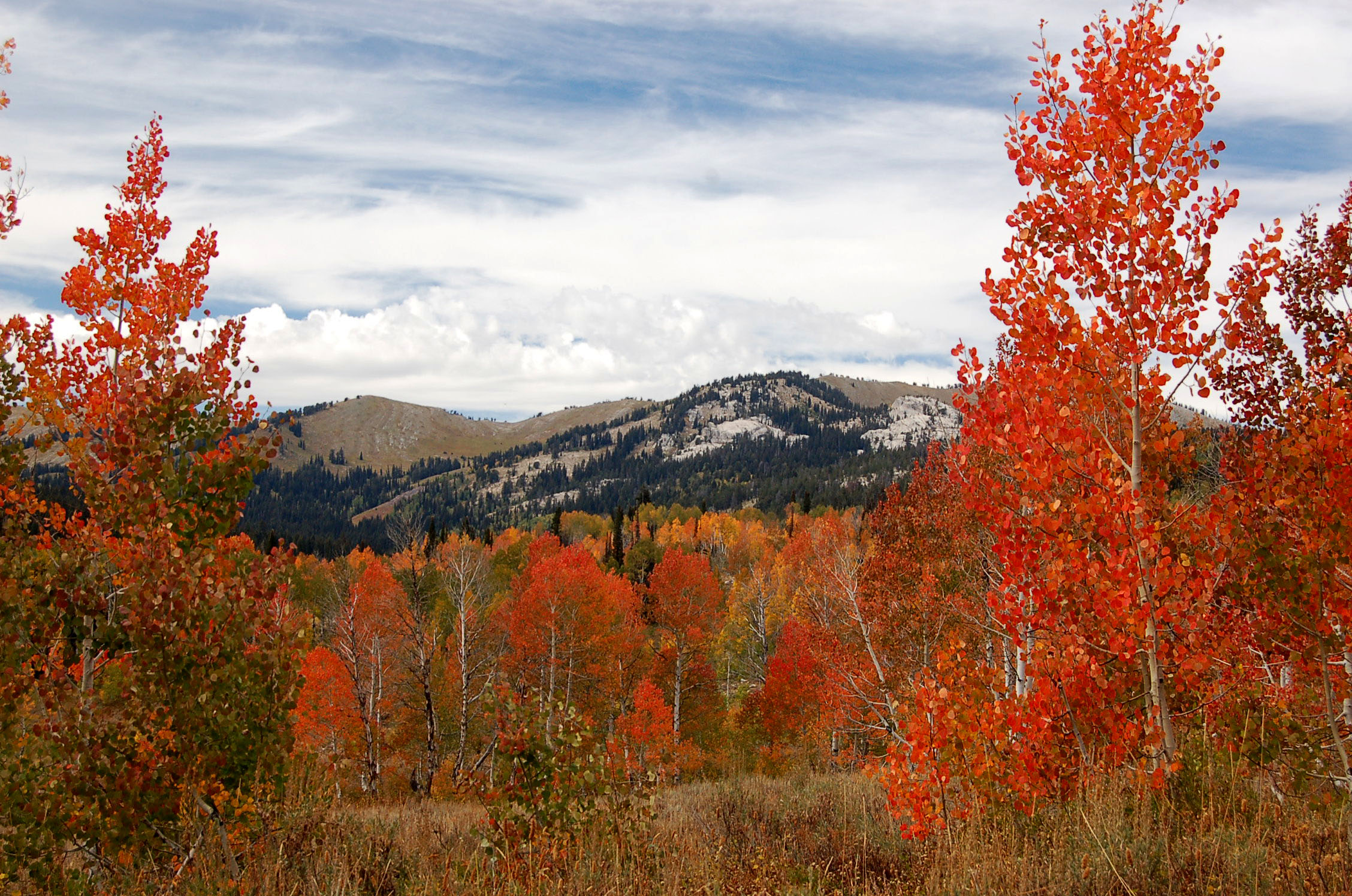 Fall colors in aspen (Populus tremuloides) in the Bear River Range, Idaho, United States